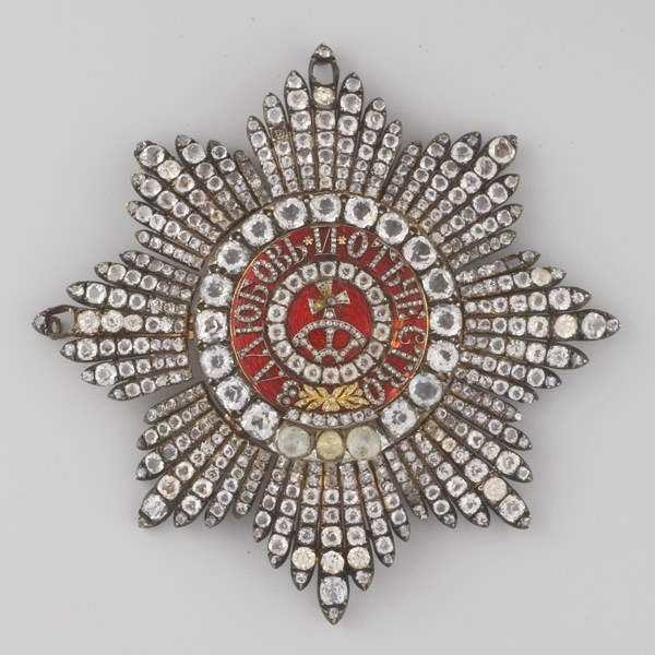 Star of the Order od Sannt Catharina (Imperial Russia).